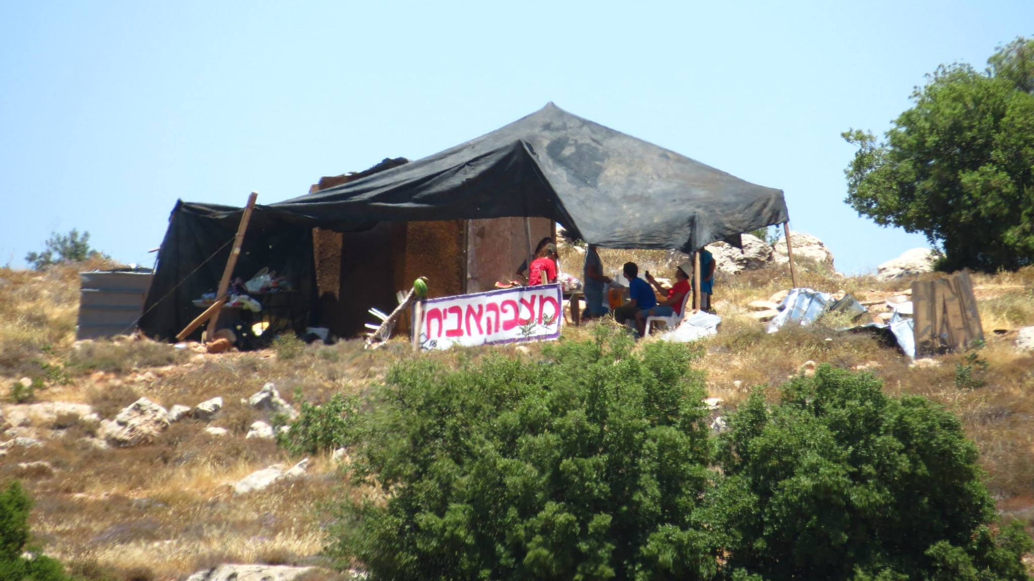 Mitzpe Avichay